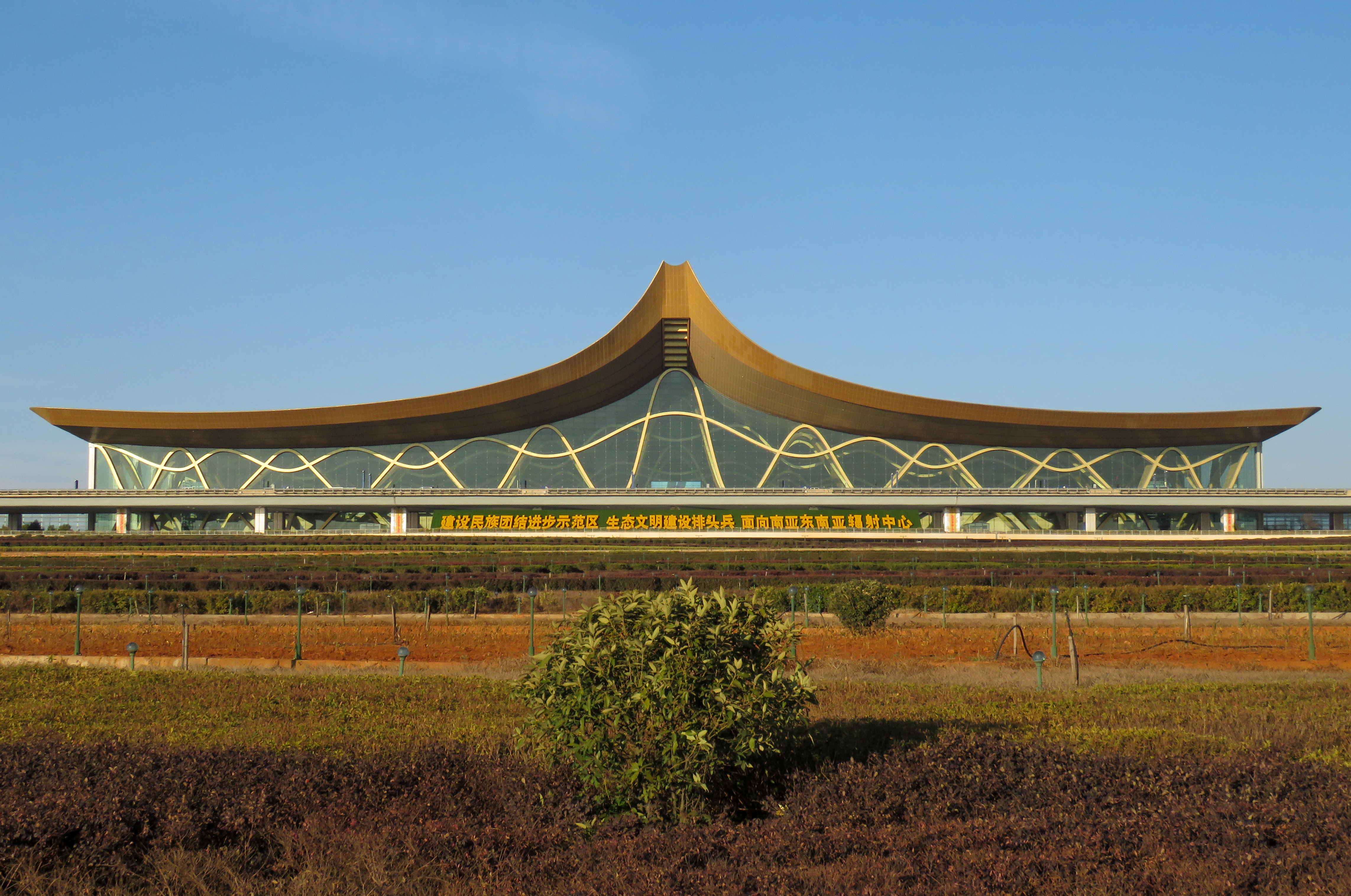 Fortunately there's still room for a "profile photo".